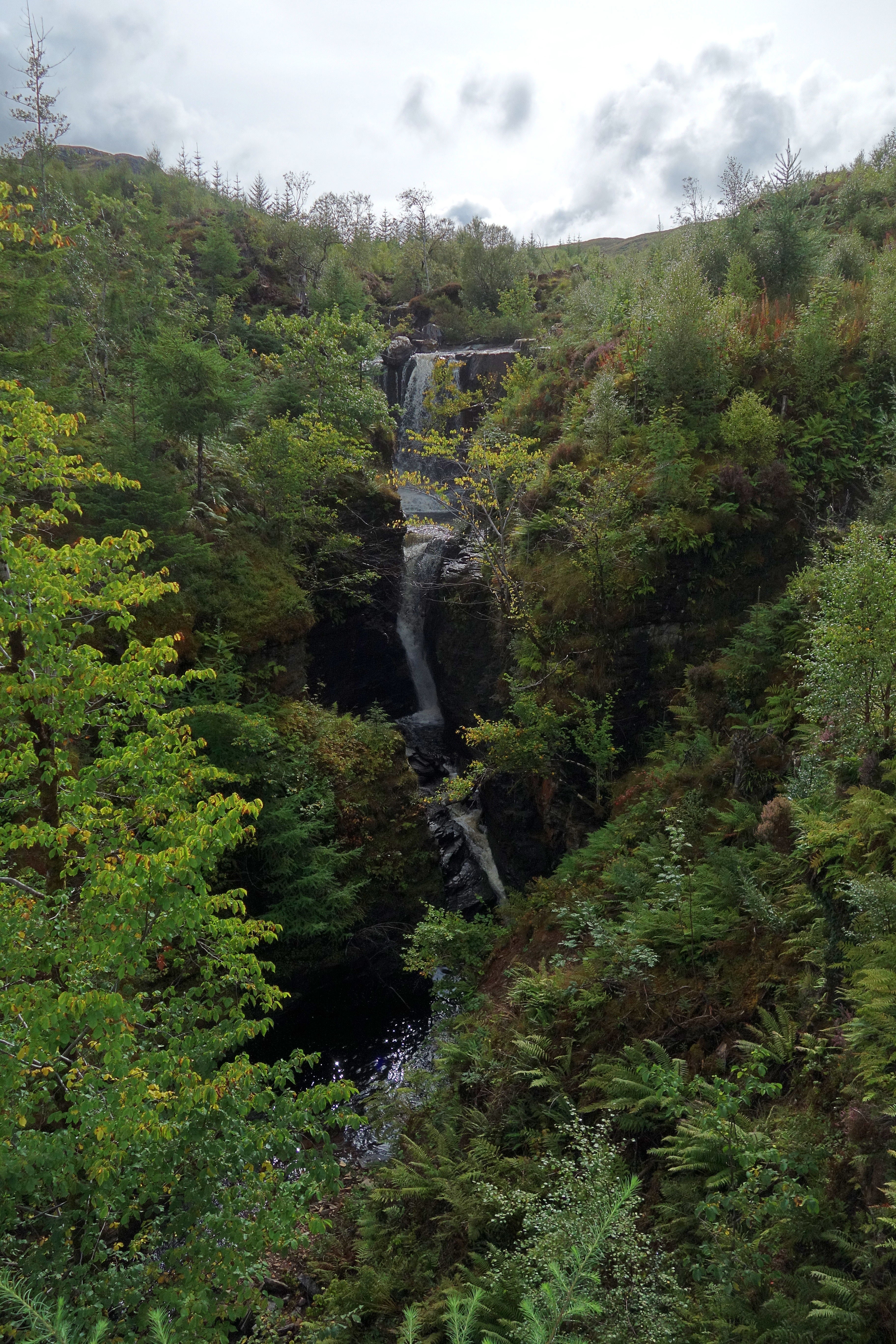 The Victoria Falls close to Loch Maree in the Highlands of Scotland.